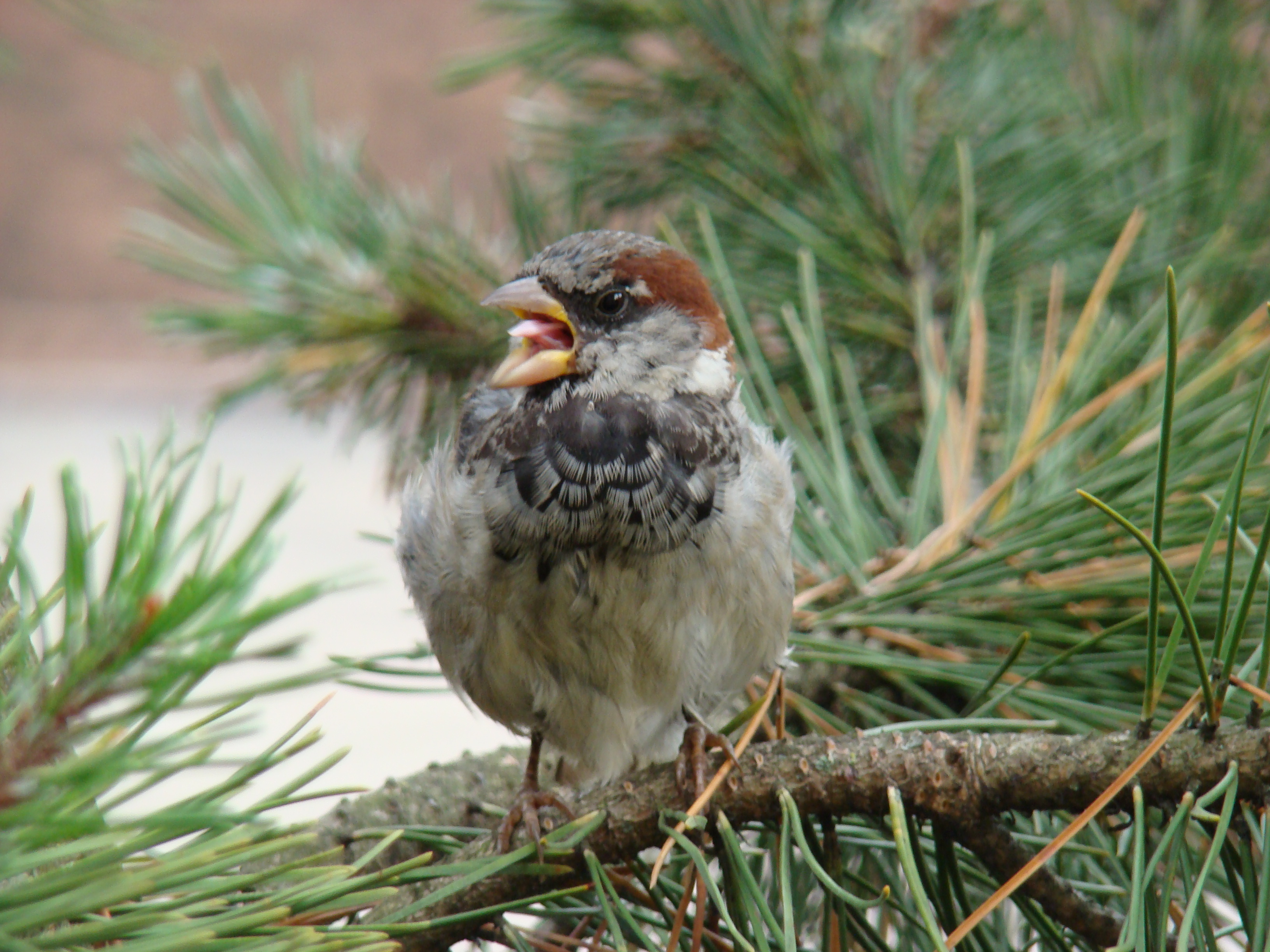 Photo of the male House Sparrow (Passer domesticus (male)) in Vilnius, Lithuania.